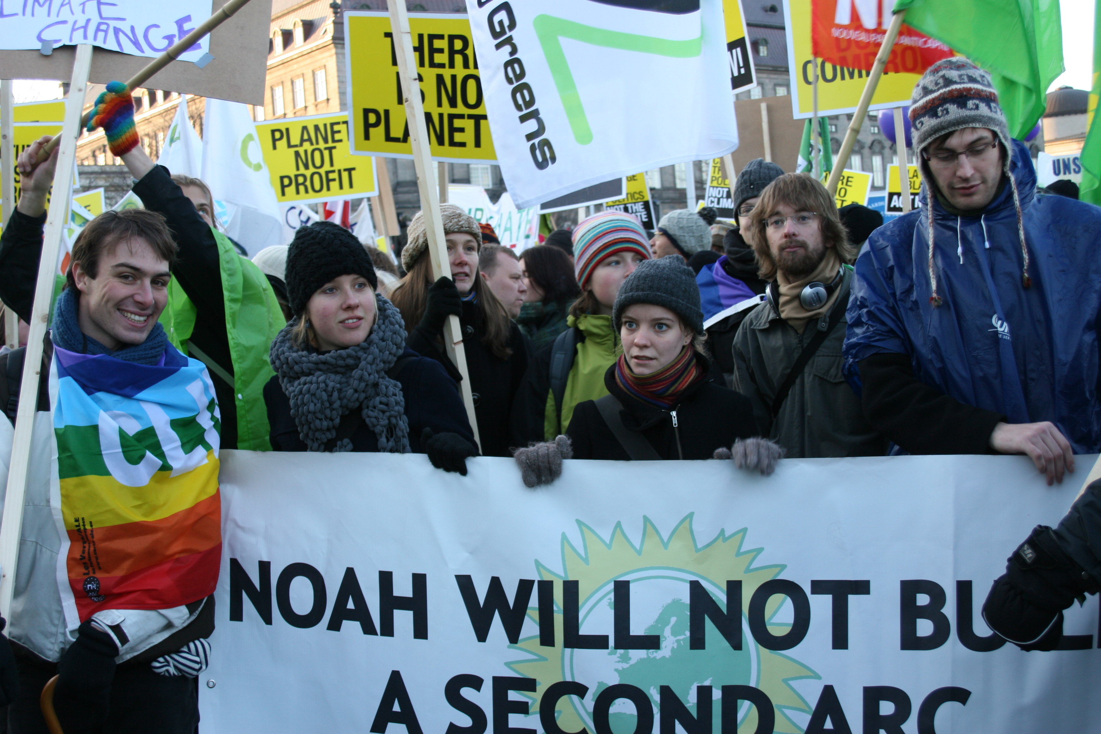 Young Greens at the climate summit demonstration in Copenhagen on 12 December 2009.